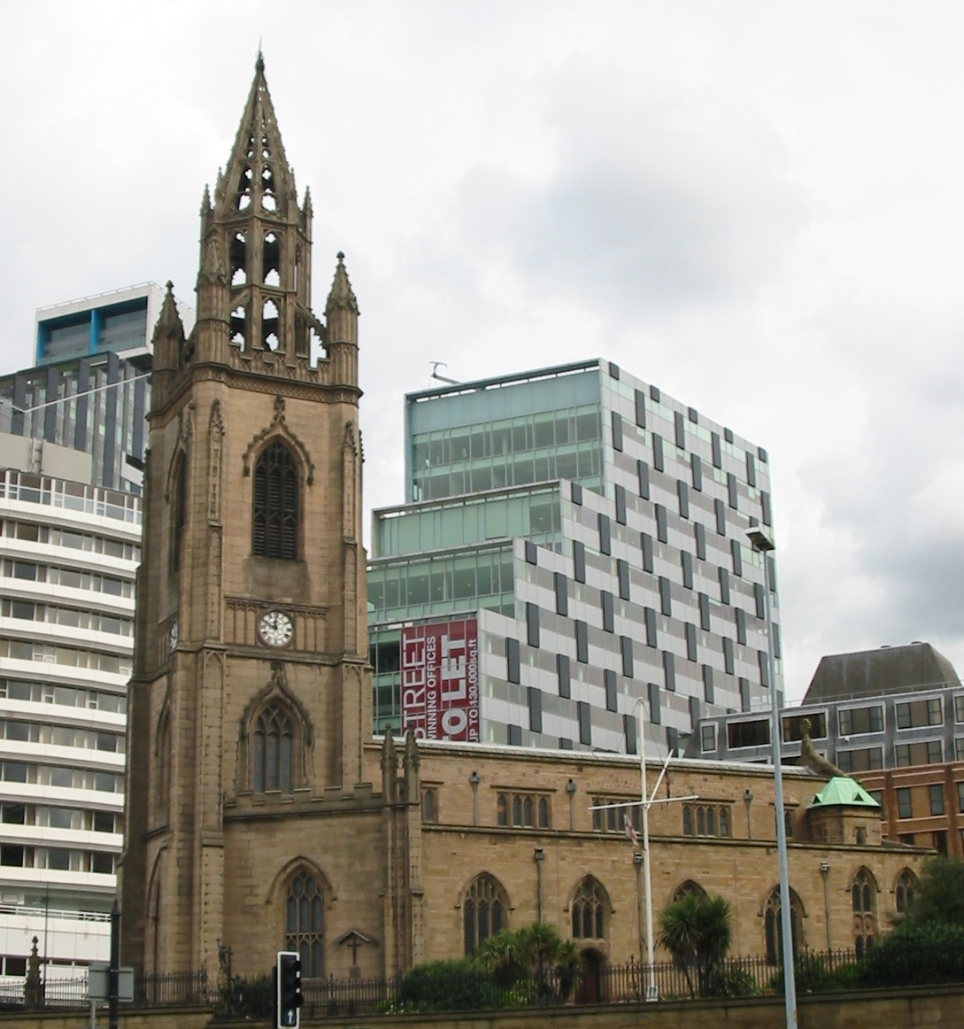 Nrf: Liverpool